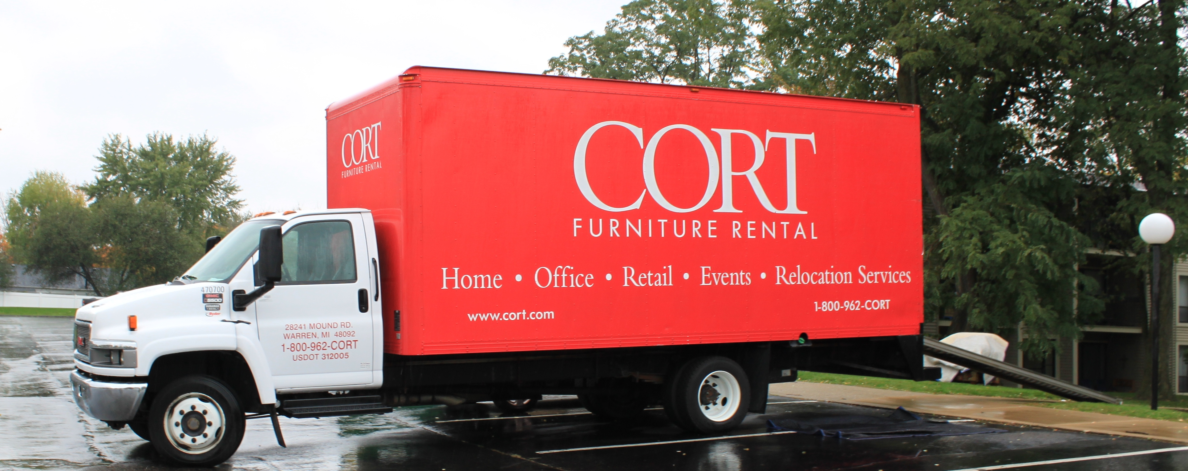 CORT moving van, Fairway Trails Apartment complex, Ypsilanti, Township, Michigan.